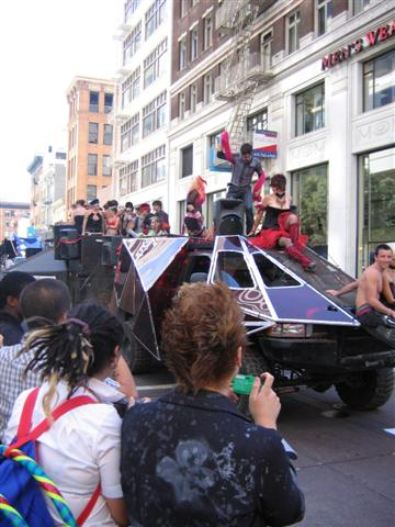 Love Parade, San Francisco